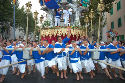 I timonieri